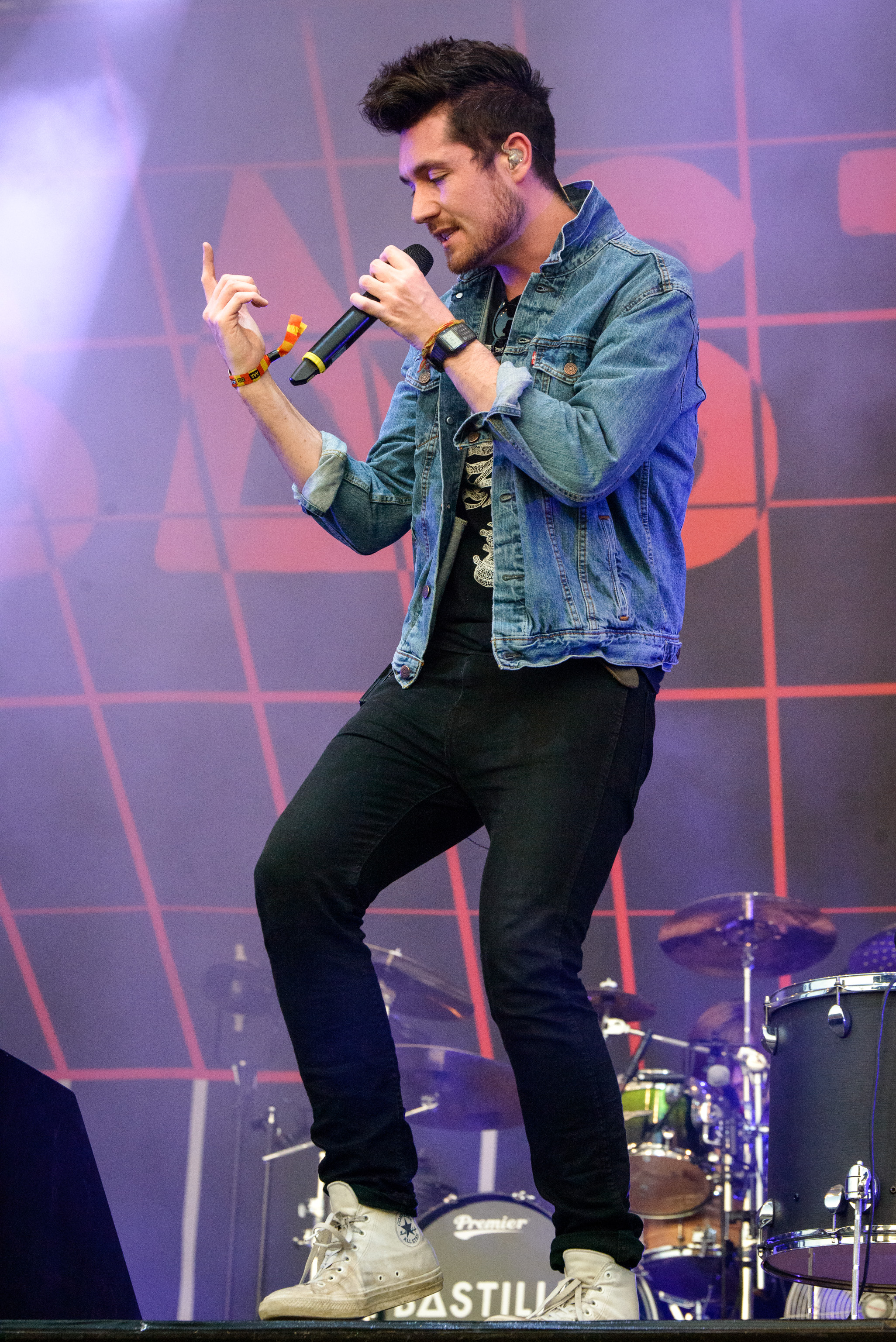 Bastille @ Lollapalooza 2015